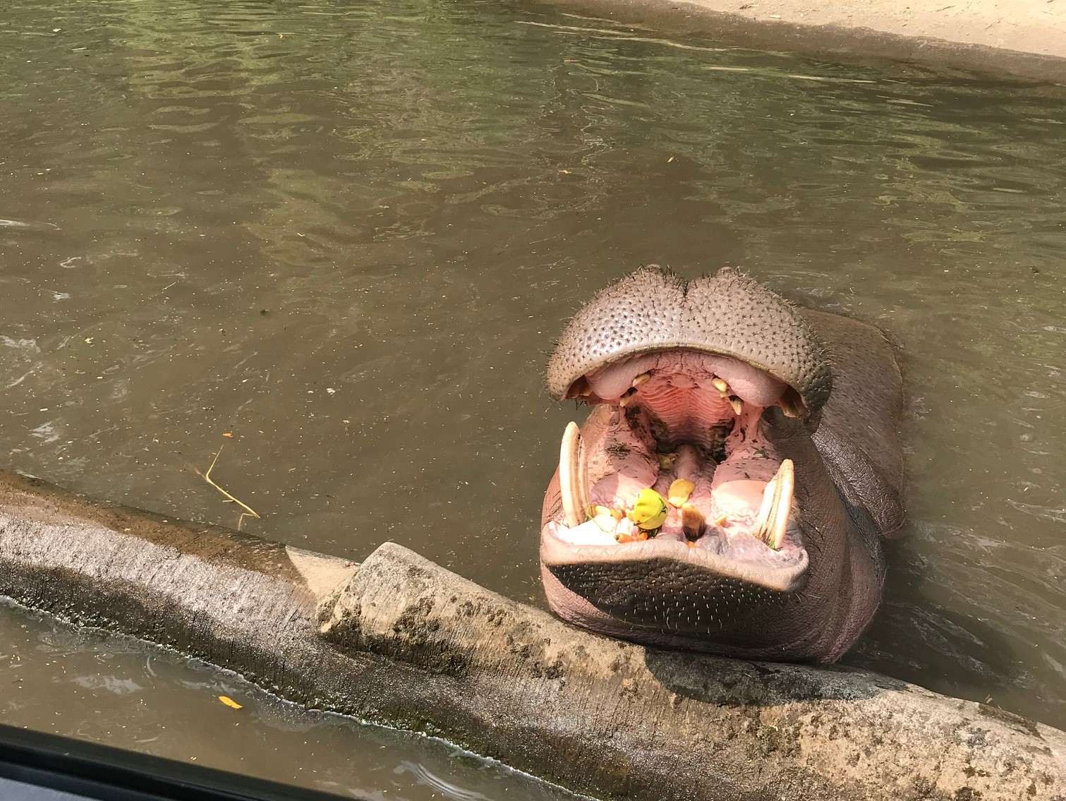 Hippopotamus at Taman Safari Bogor